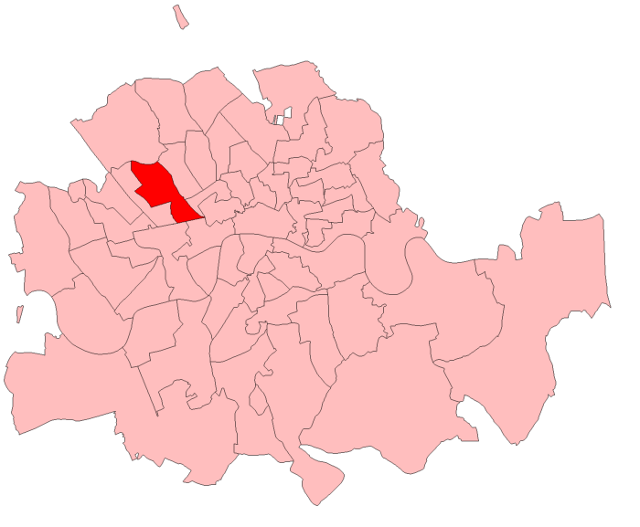 A map of Marylebone East constituency within the Metropolitan Board of Works area, as it existed from 1885 to 1918.